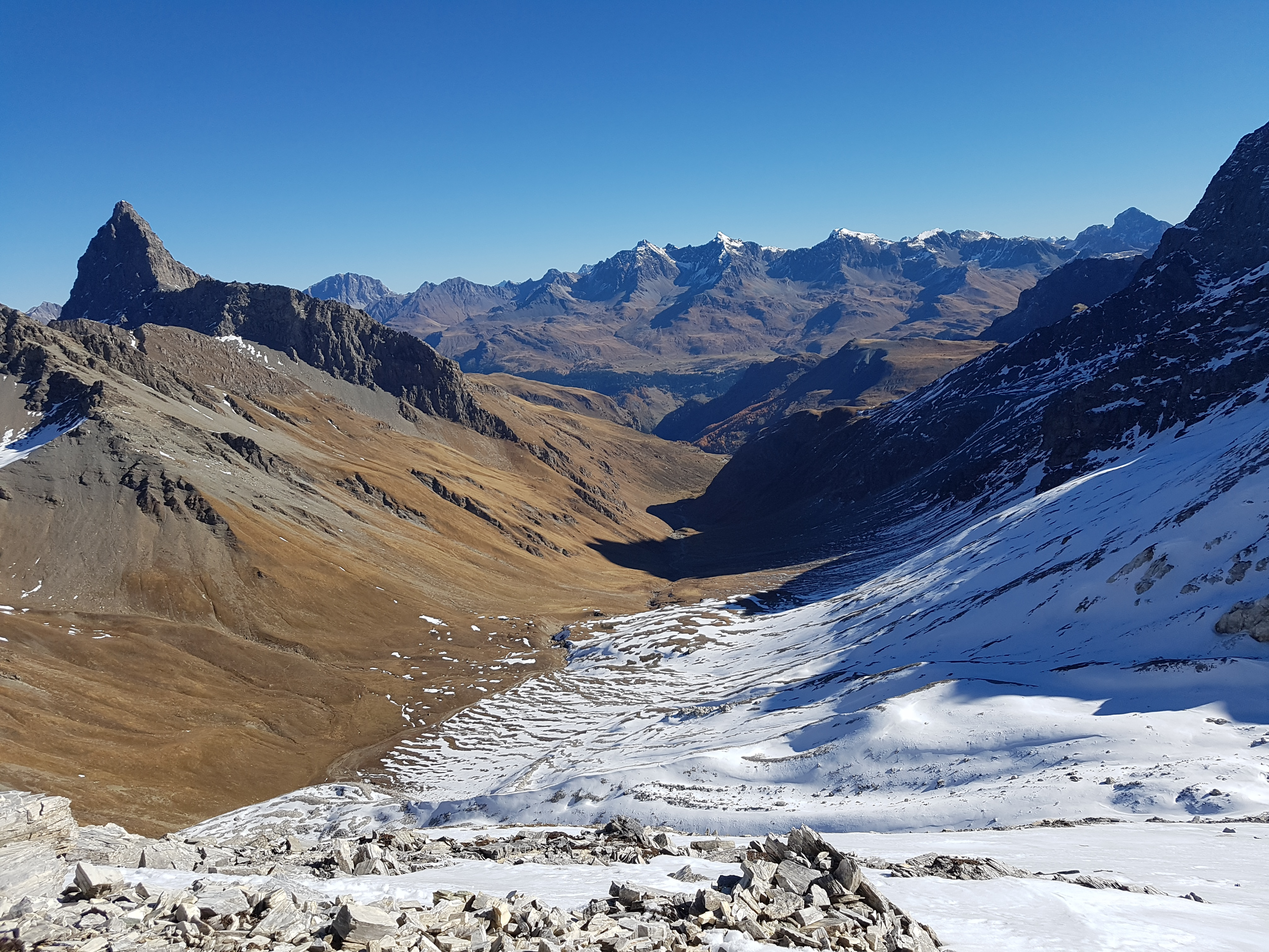 Val Gronda (Mulegns, Grison, Switzerland)